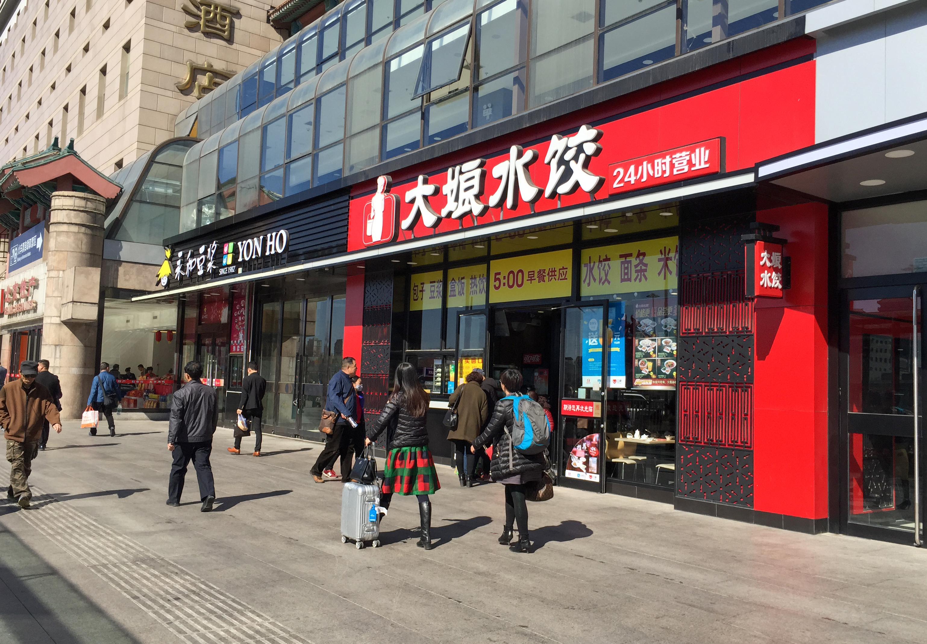 Targeted for HSR passengers. The corporate identity changed in 2012, allegedly a reference to In The Mood For Love.